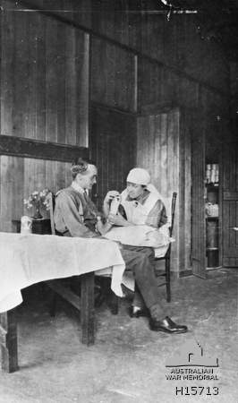 England. Lieutenant Arthur Wesley Wheen MM & Bar of the 56th Battalion, AIF, having his hand dressed by Miss Kent at a military hospital.